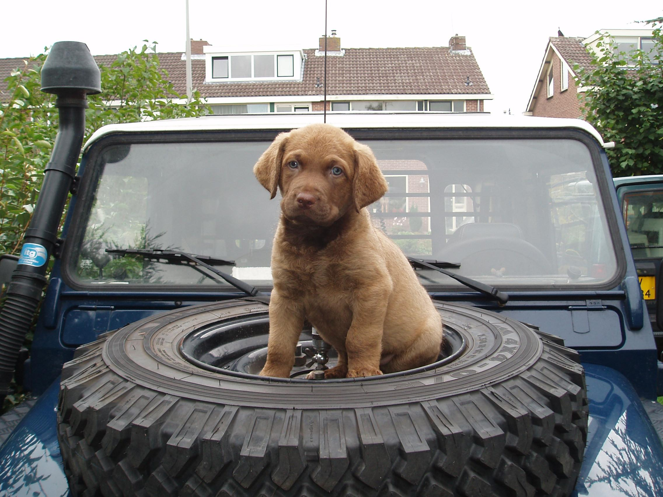 Chesapeake Bay Retriever puppy (6weeks old)